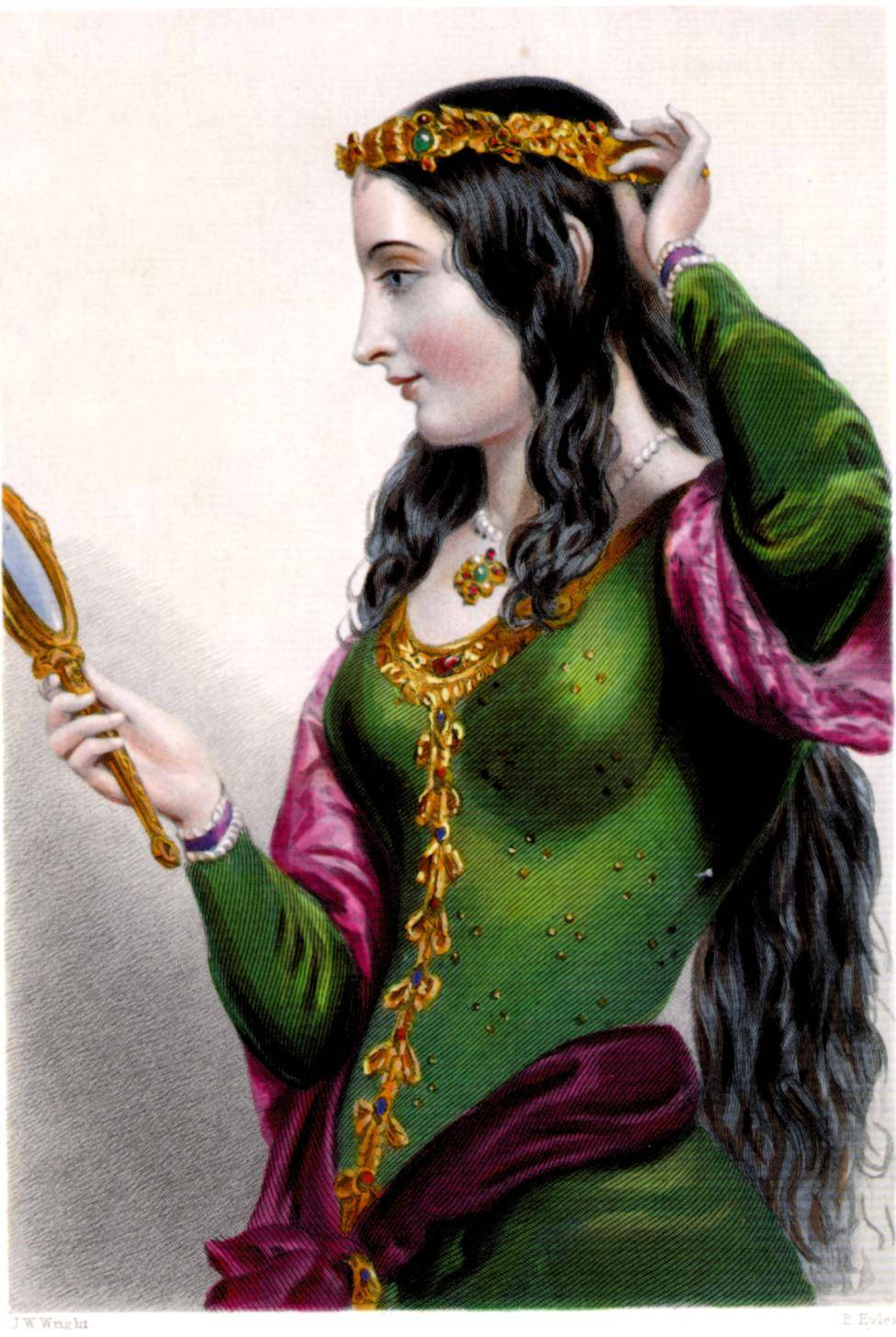 Eleanor of Provence, Queen of England